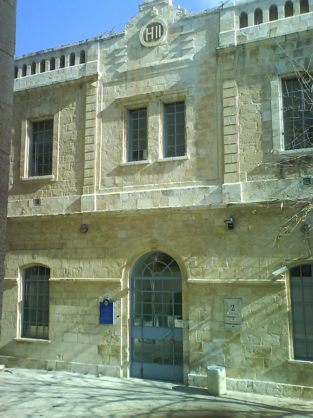 The Russian Consulate in the Russian Compound in Jerusalem on Shivtei Yisra’el street. Erected in stages since 1860 for the Russian consulate, and combines European characteristics with local building techniques.